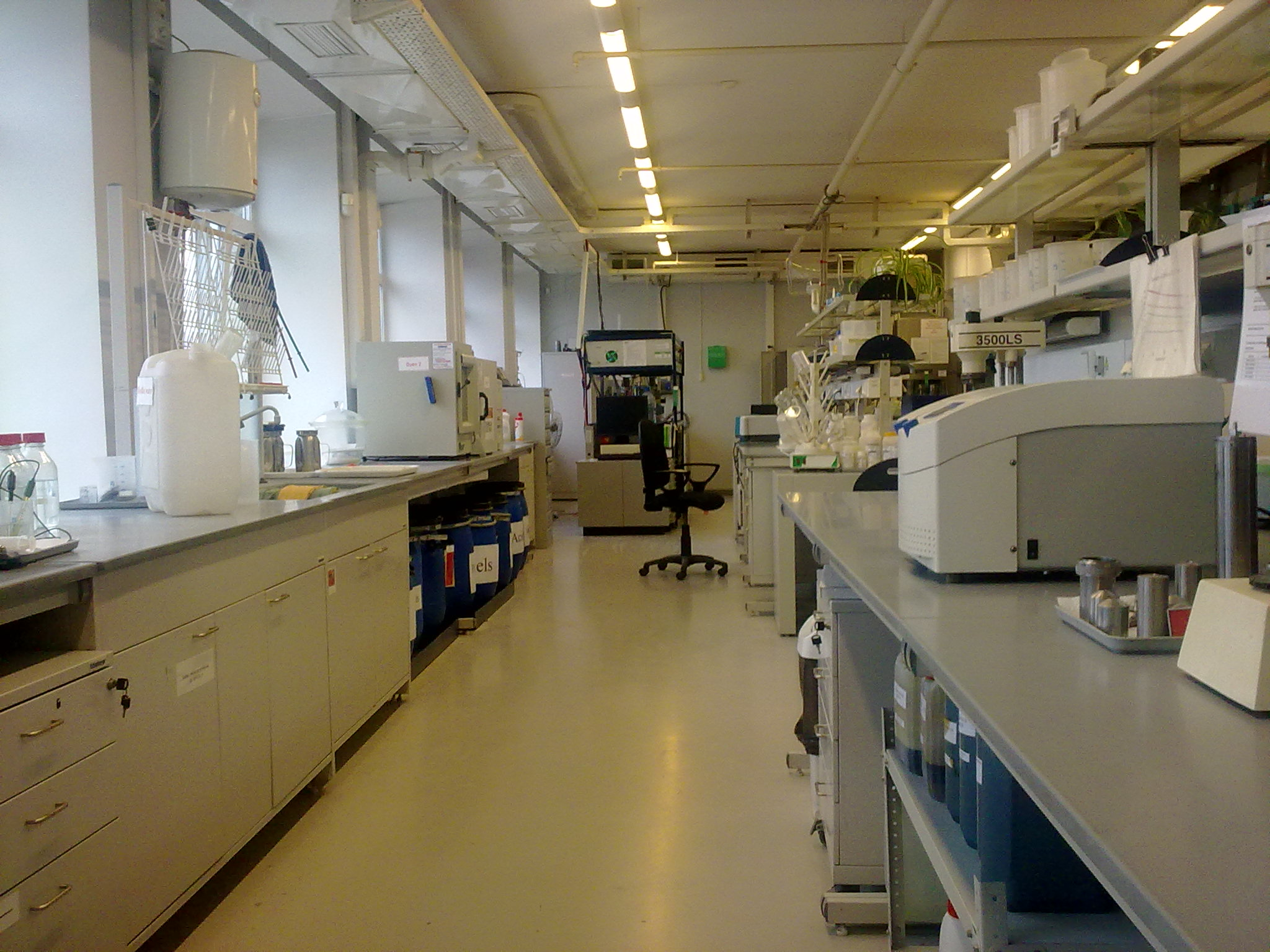 Laboratory of oil services company Schlumberger in Tyumen, Russia.